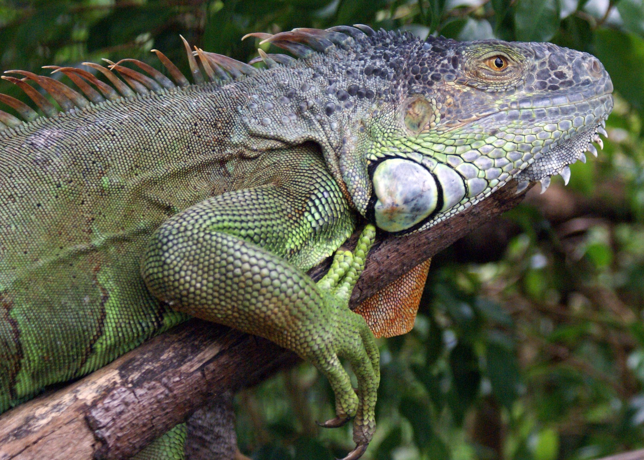 green iguana on a branch